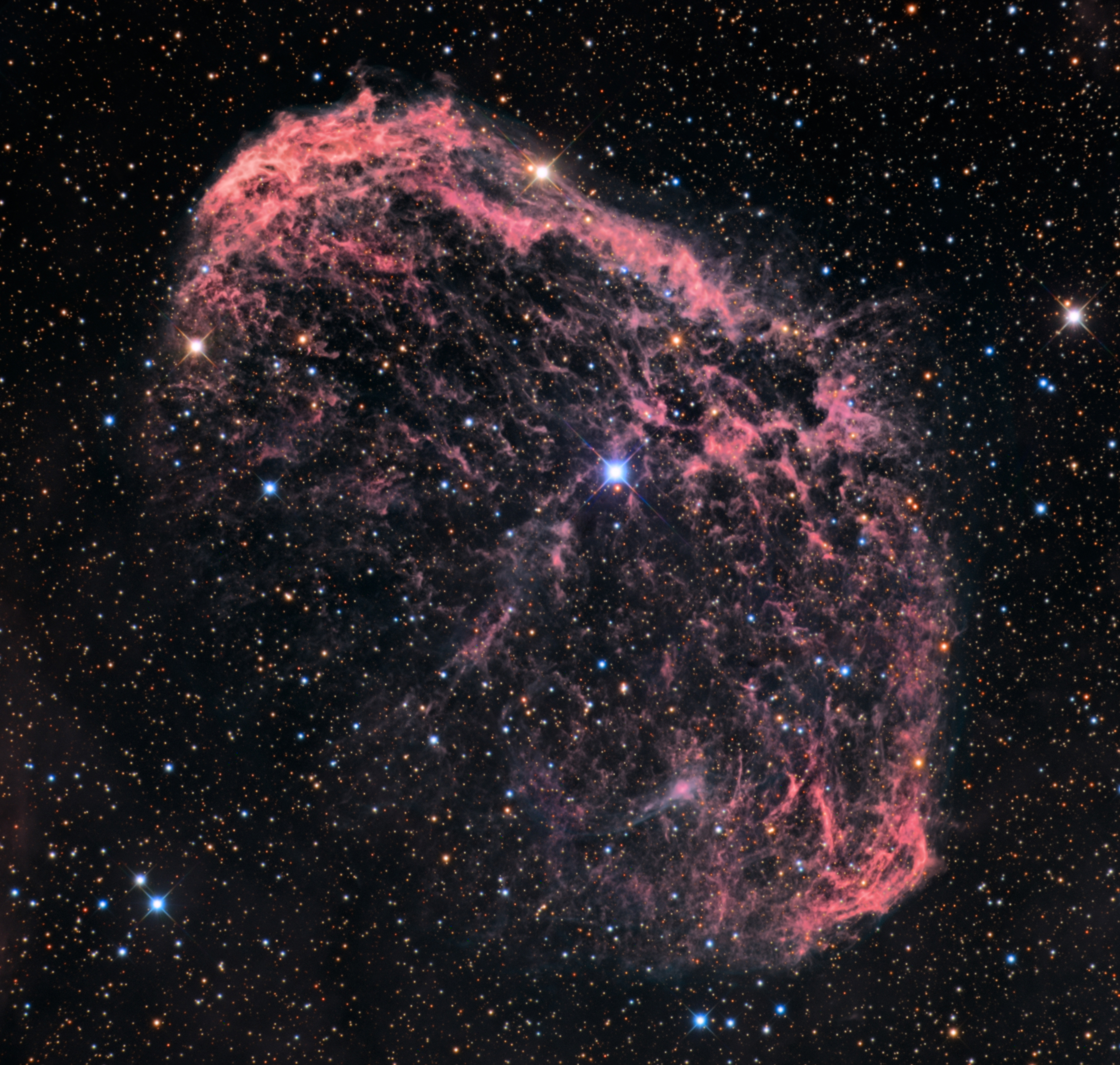 NGC6888 Crescent Nebula